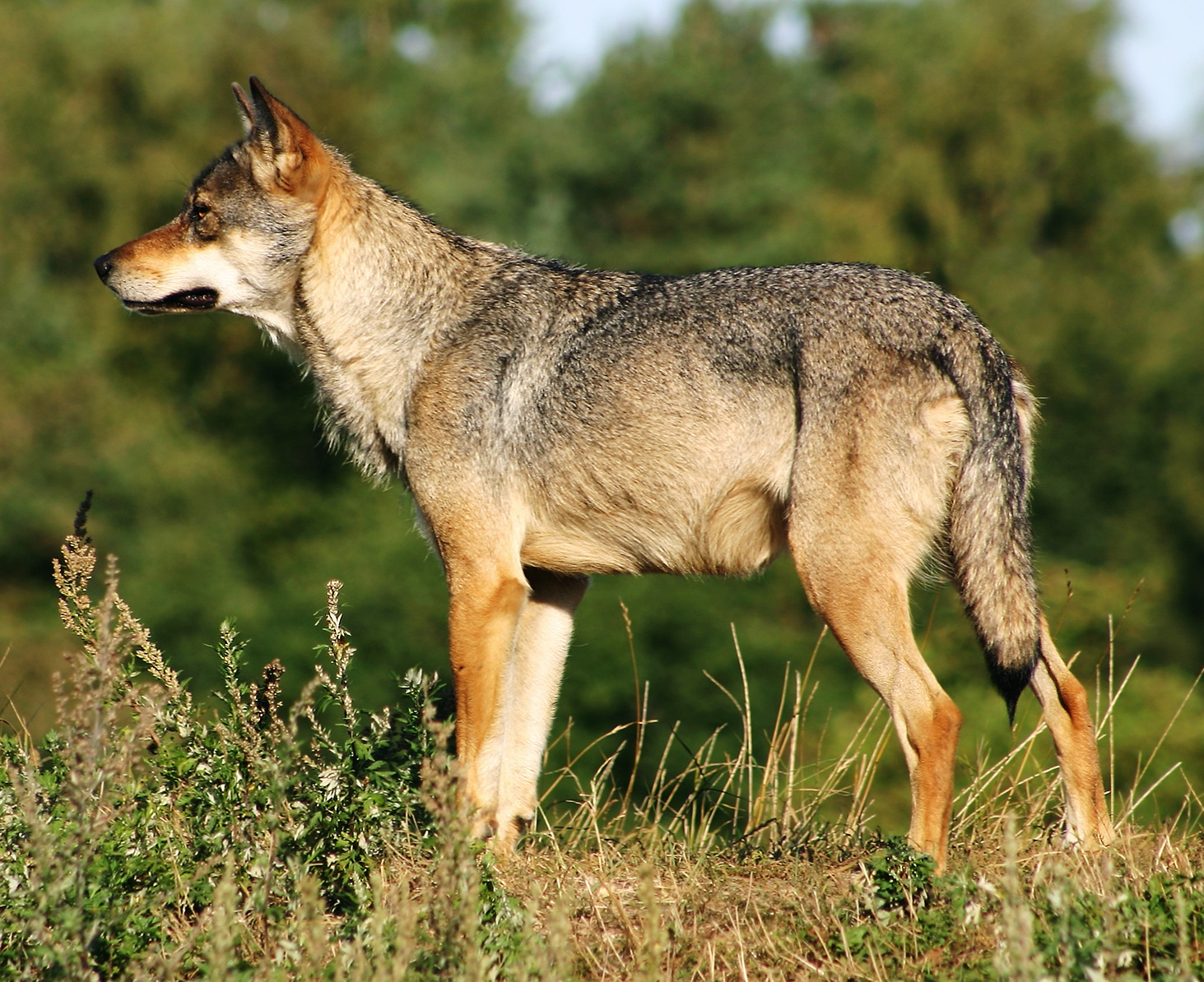 Scandinavian grey wulf (Canis lupus) at Skandinavisk Dyrepark, Djursland, Denmark.